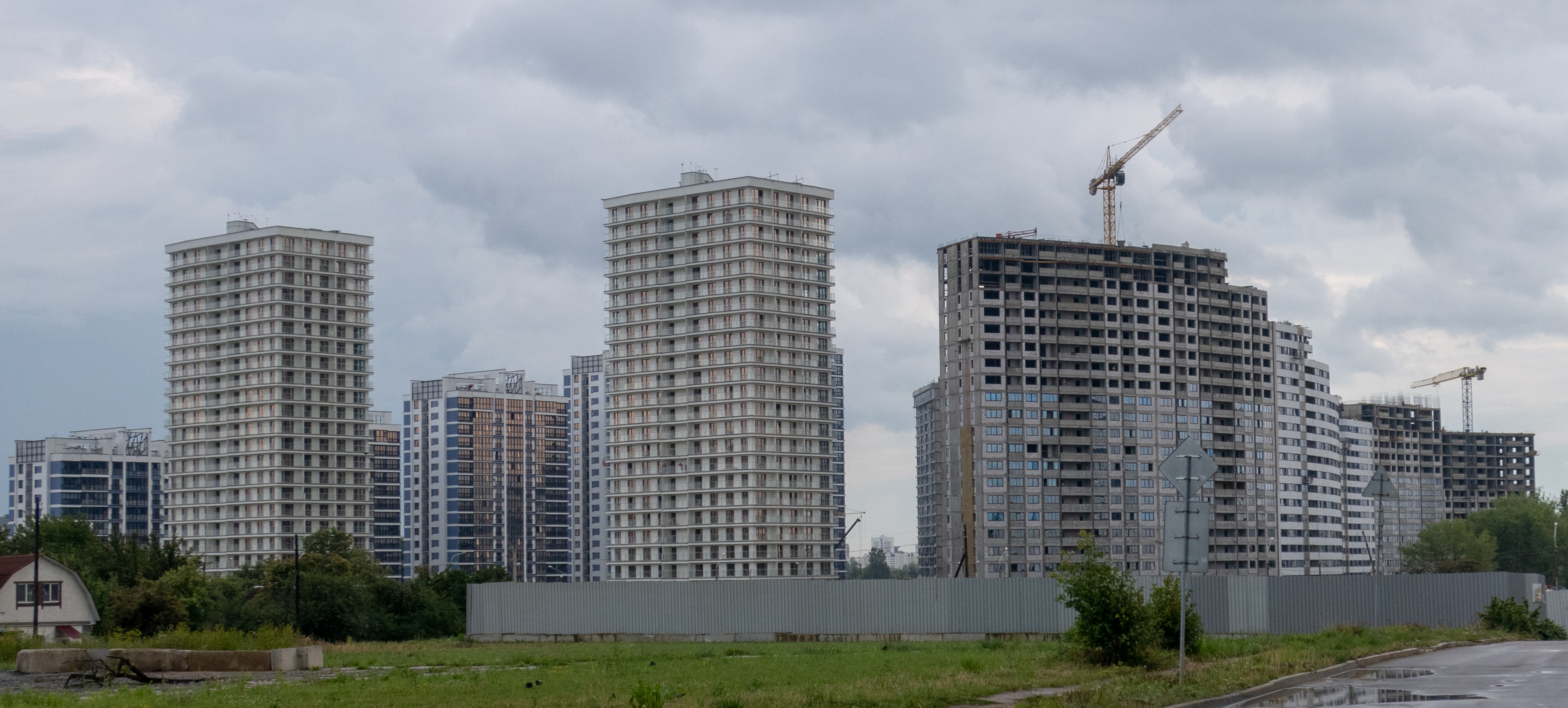 Minsk-City residential complex (July 2019)